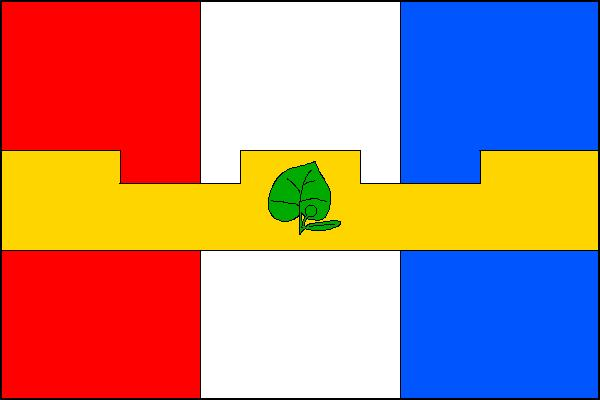 Municipal flag of Lom town, Most District, Czech Republic.